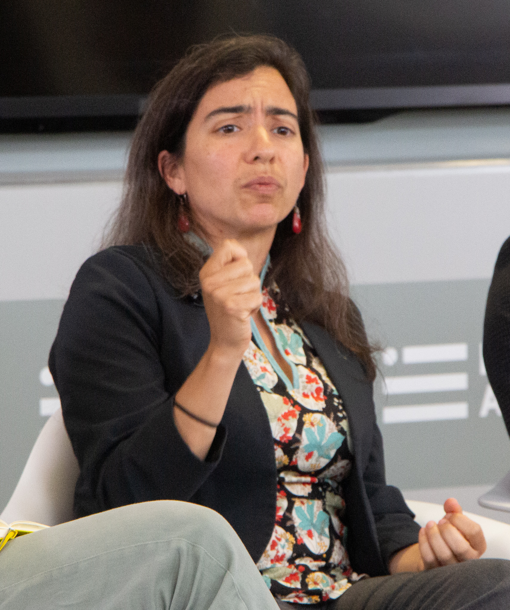 Malka Older, Aid worker, sociologist, and science fiction author (Infomocracy, Null States, State Tectonics)